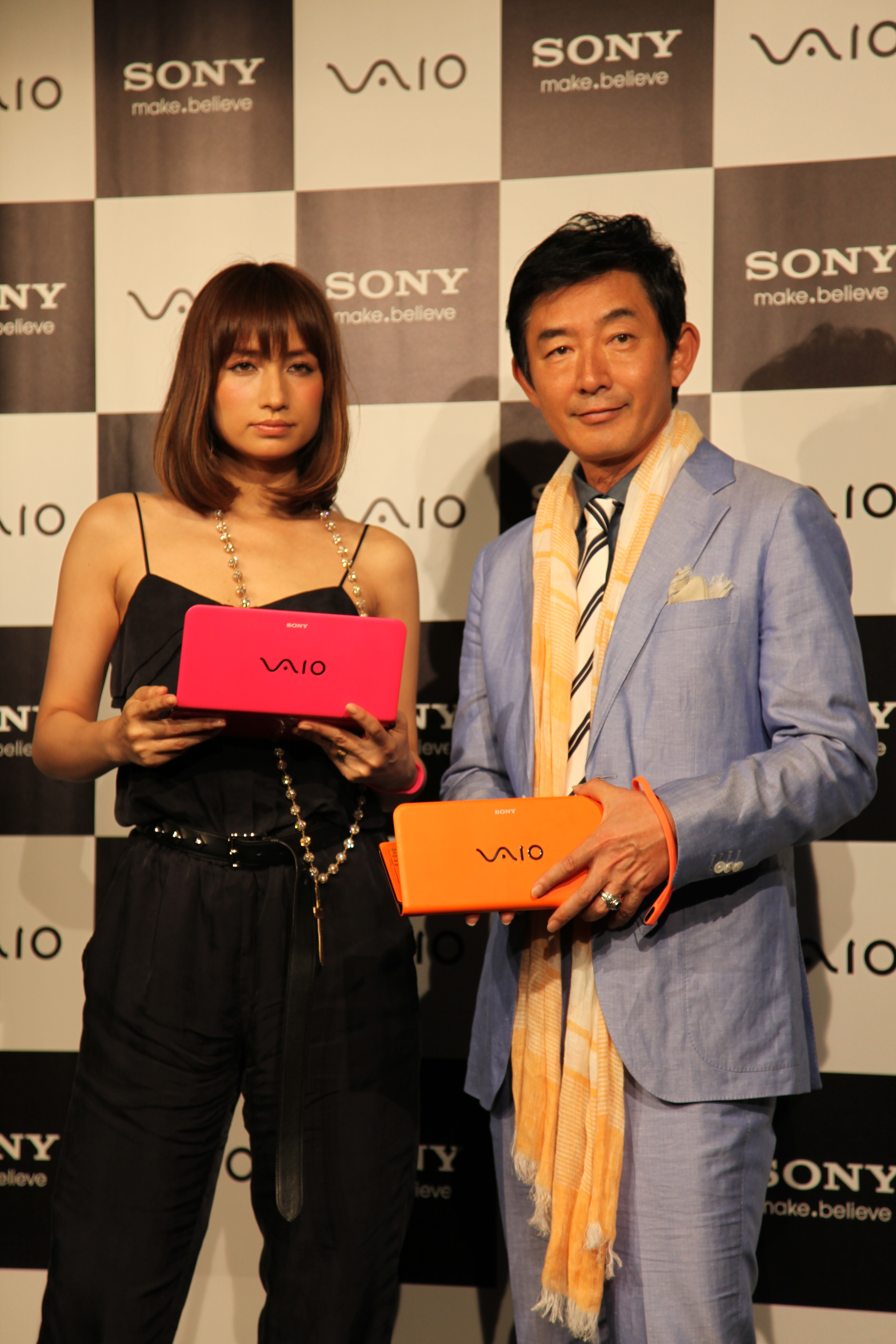 Japanese model Mayumi Sada and actor Junichi Ishida at a Sony Vaio promotion event